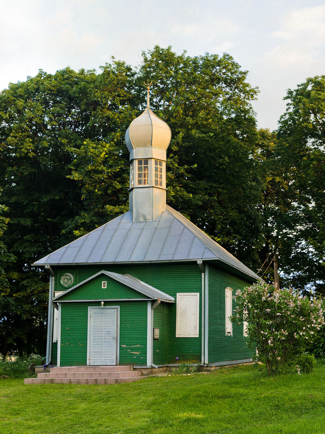 Tatar mosque in the Tatar cemetery of Nemėžis near Vilnius, Lithuania